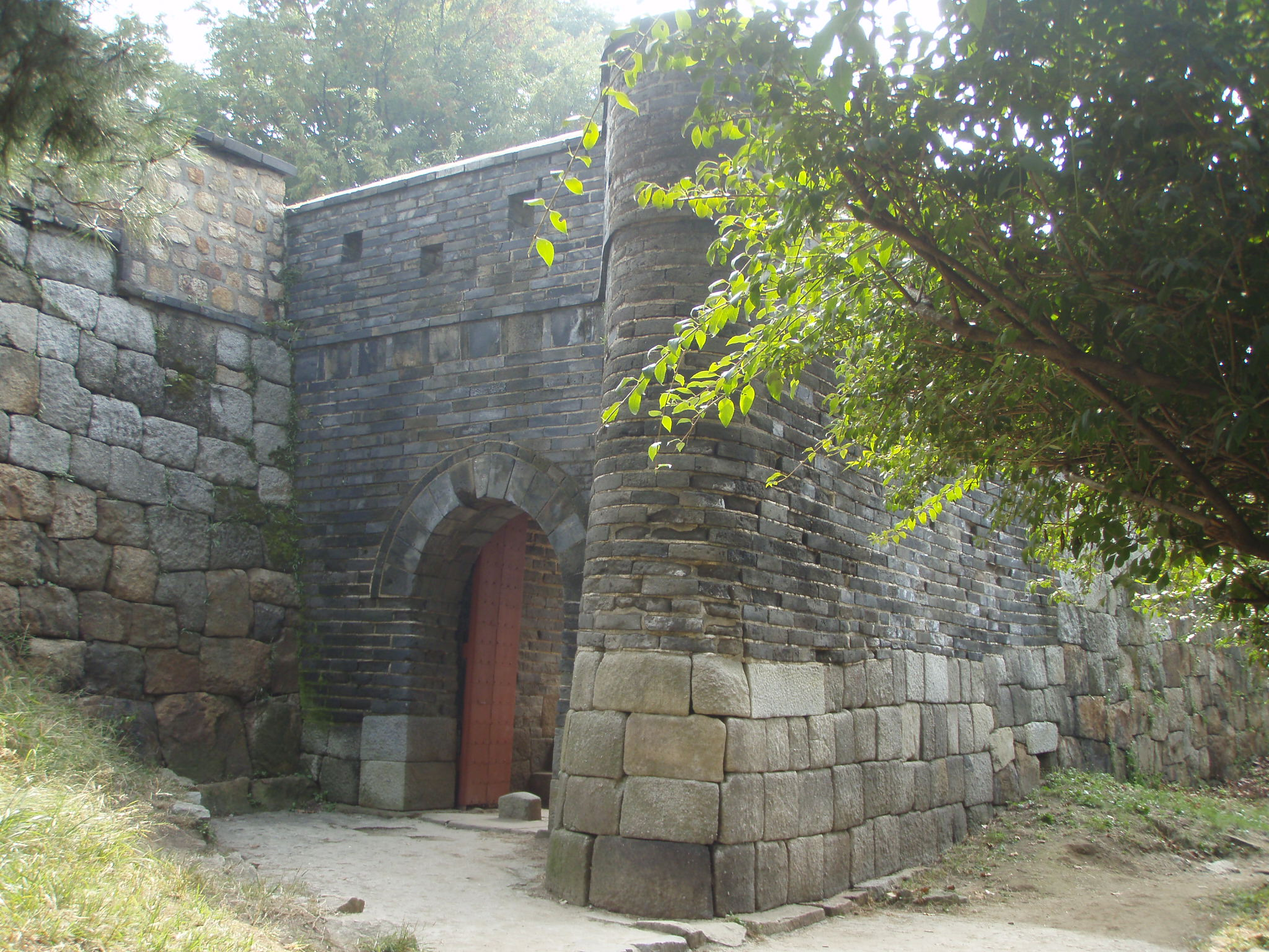 Seoammun Suwon Hwaseong Fortress UNESCO World Heritage